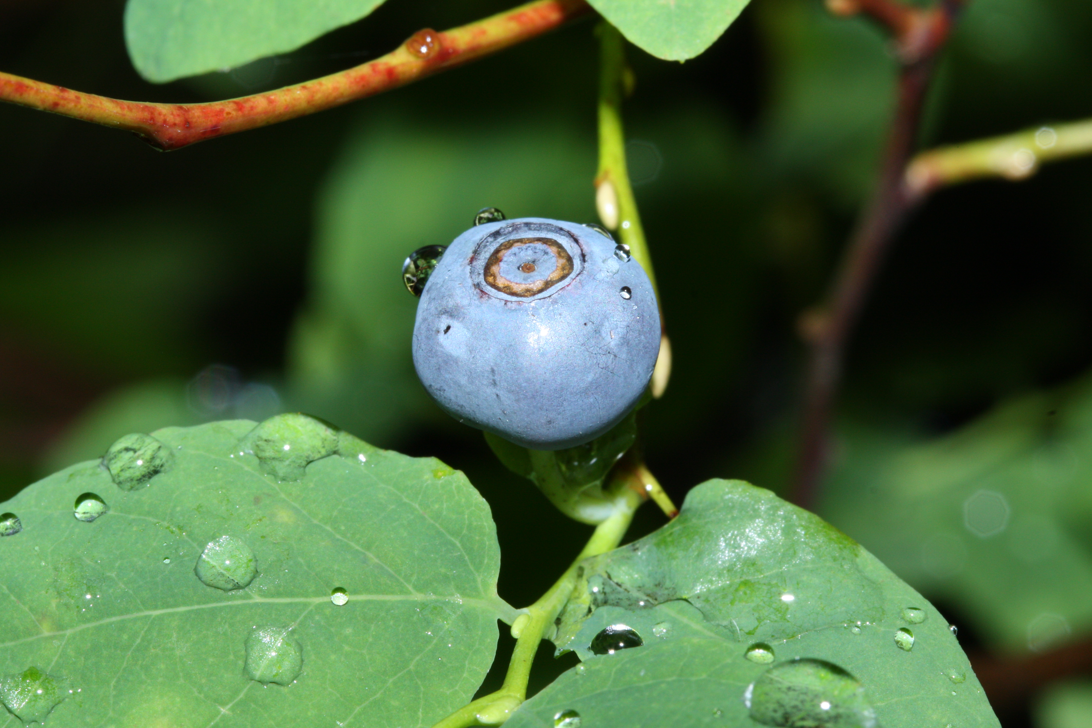 Oval-leaf Blueberry, Alaska Blueberry